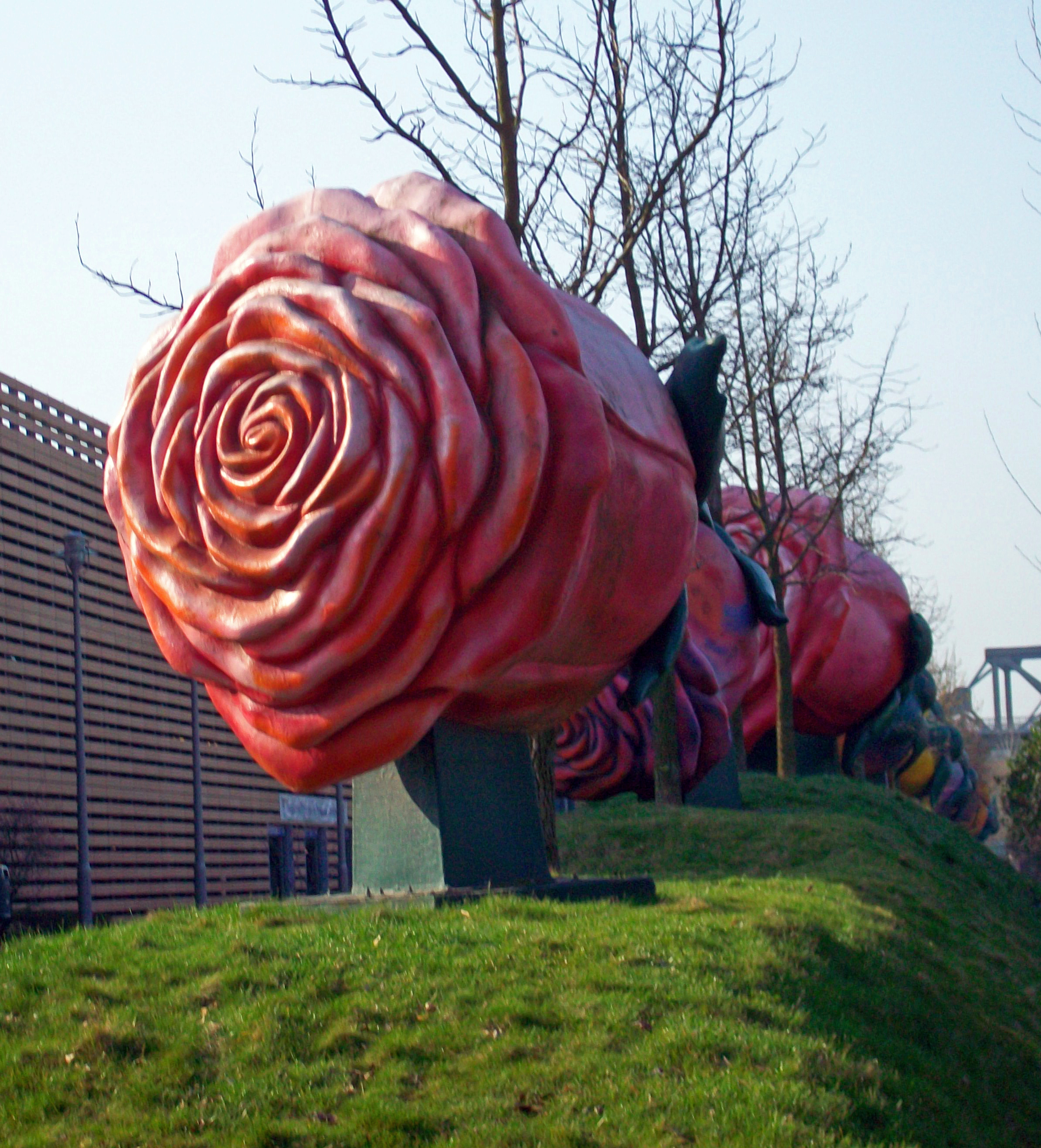 Image of sculptures by Sergej Alexander Dott, Himmelsblumen, 2003 along Schöneberger Ufer in Berlin near Mendelssohn-Bartholdy-Park U-Bahn station. Since both they and the photographer are on public land, under German law freedom of panorama applies and the image copyright belongs solely to the photographer.